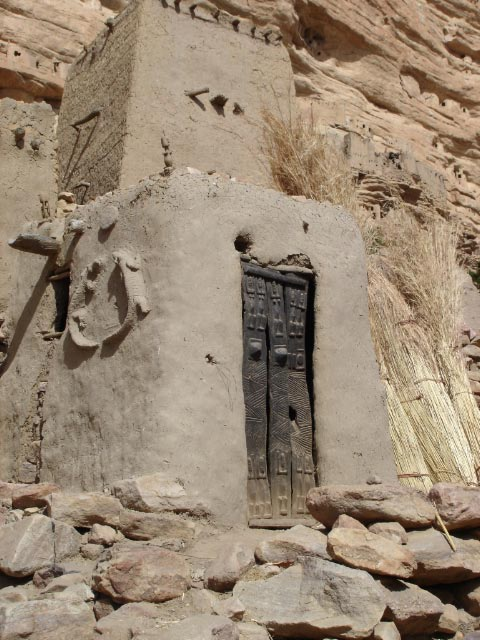 The Dogon village of Banani, Mali, December 2006.